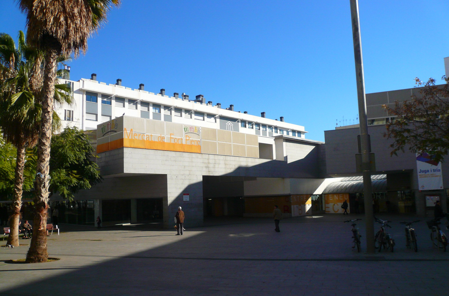 Fort Pienc square, Barcelona, Catalonia.